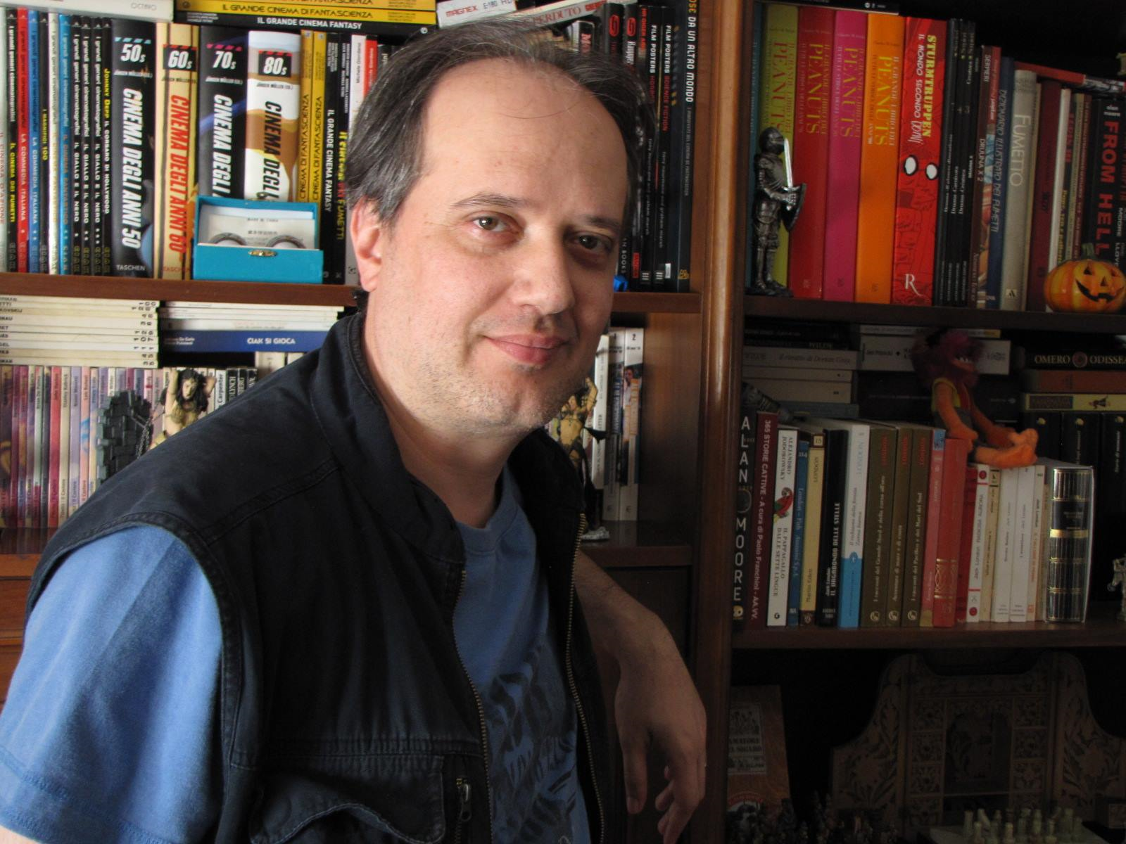 Michele Tetro